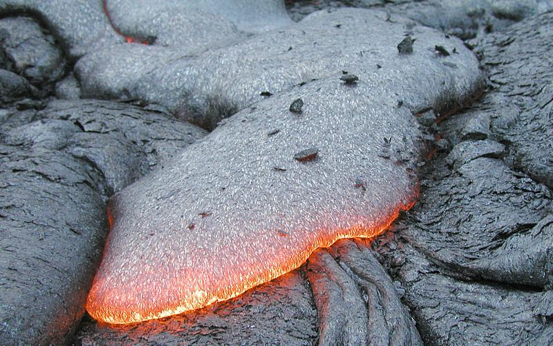 Basalt lava (glowing rock) oozing over basalt lava flow